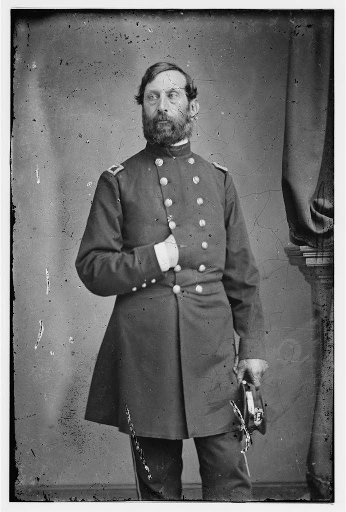 Portrait of Col. Henry J. Hunt, officer of the Federal Army (Maj. Gen. from July 6, 1863)